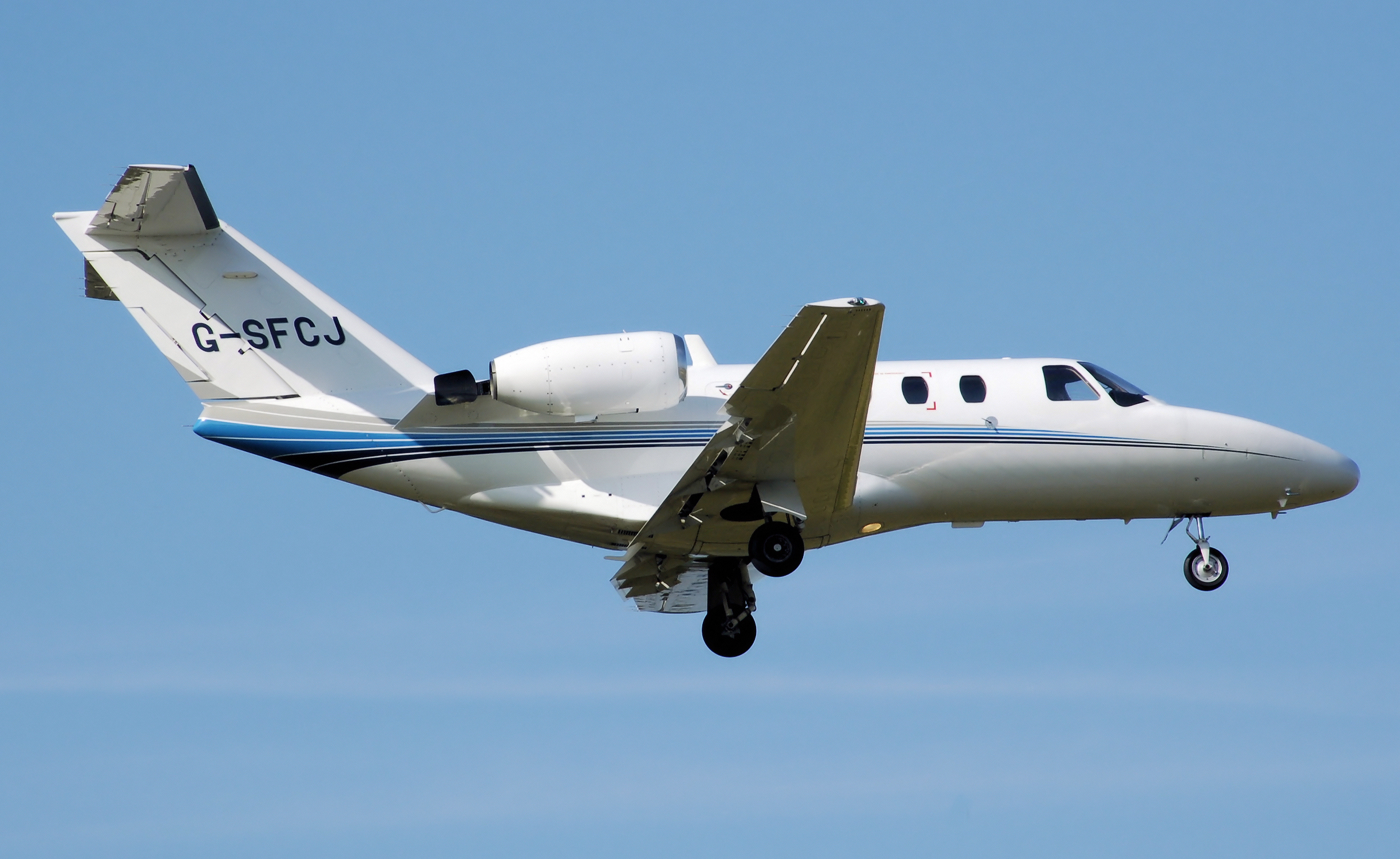 Cessna 525 CitationJet (G-SFCJ) landing at Birmingham International Airport, Birmingham, England.